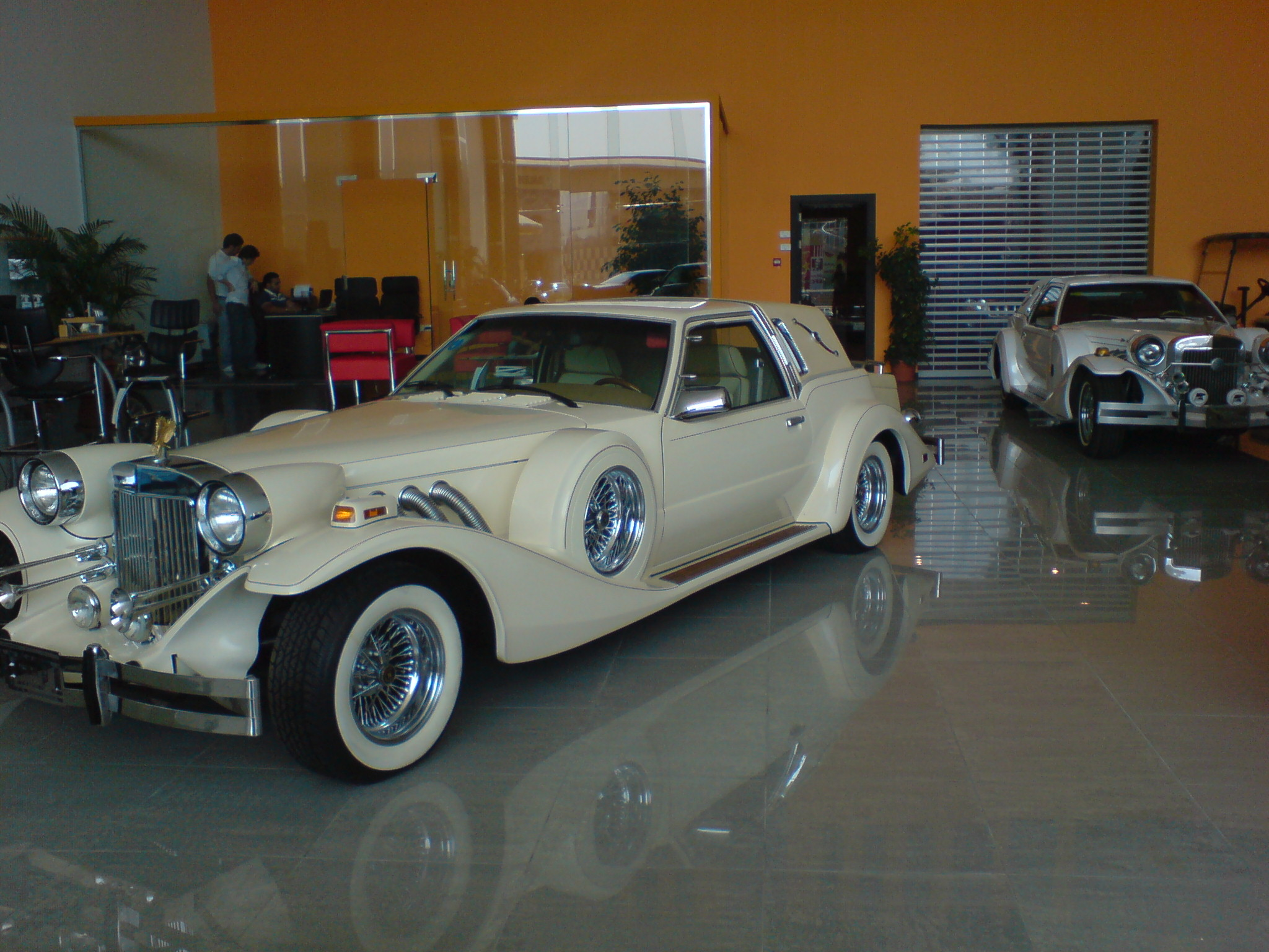 Zimmer, American made classic car